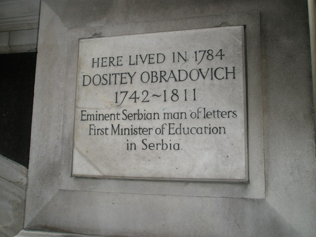 Plaque near St Clement's, Eastcheap In Clements Lane, Eastcheap For further details Dositej_Obradovi%C4%87